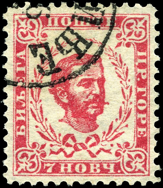 Montenegro 7n stamp of 1874